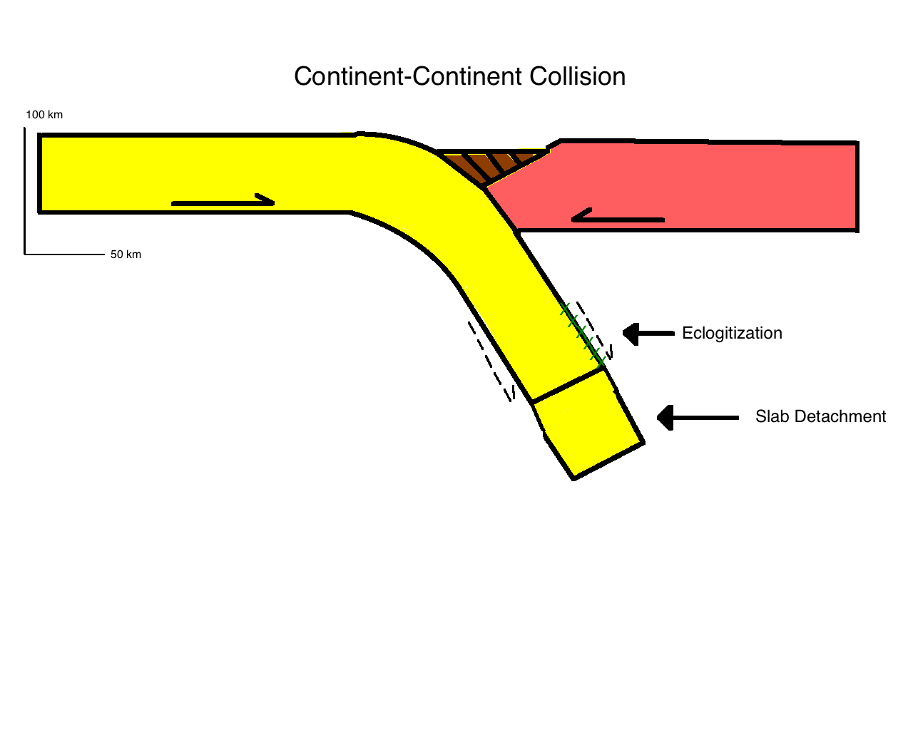 Eclogitization